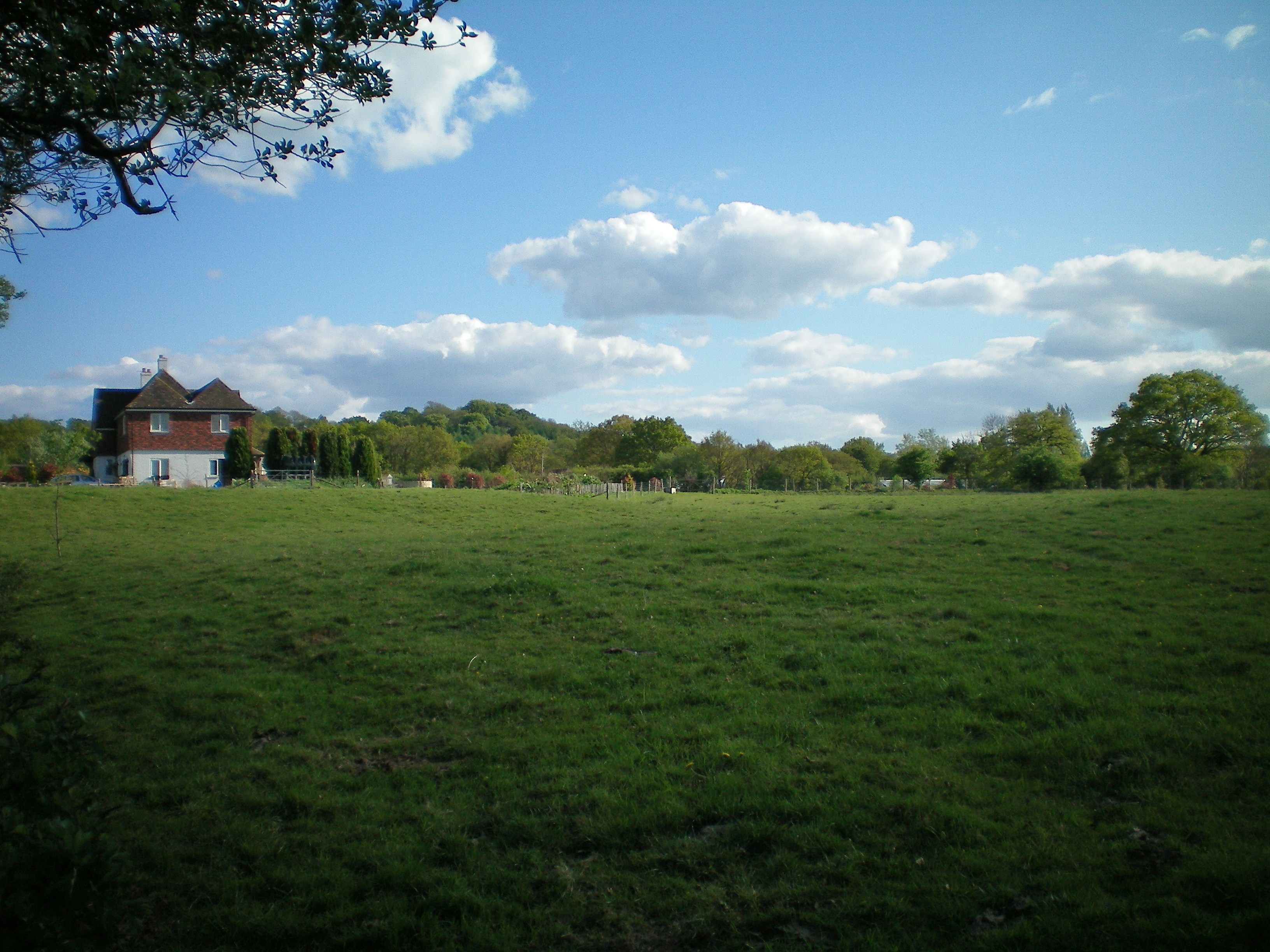 Mansio earthworks at Milland, West Sussex, England.